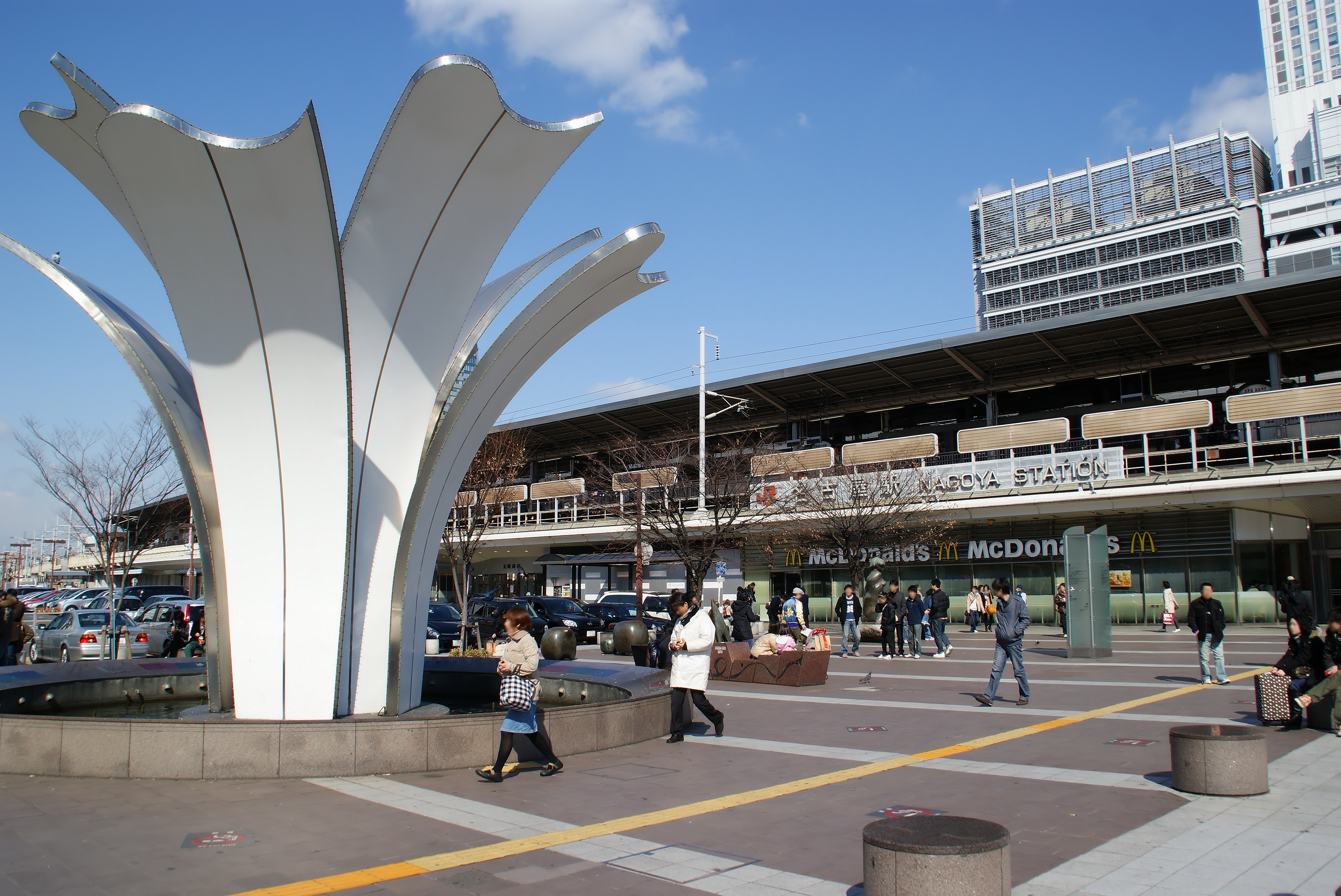 Central Japan Railway, Nagoya Station.(Nakamura Ward, Nagoya City, Aichi Prefecture, Japan)